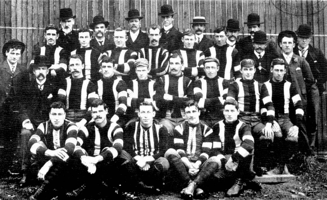 Team of St Kilda FC.